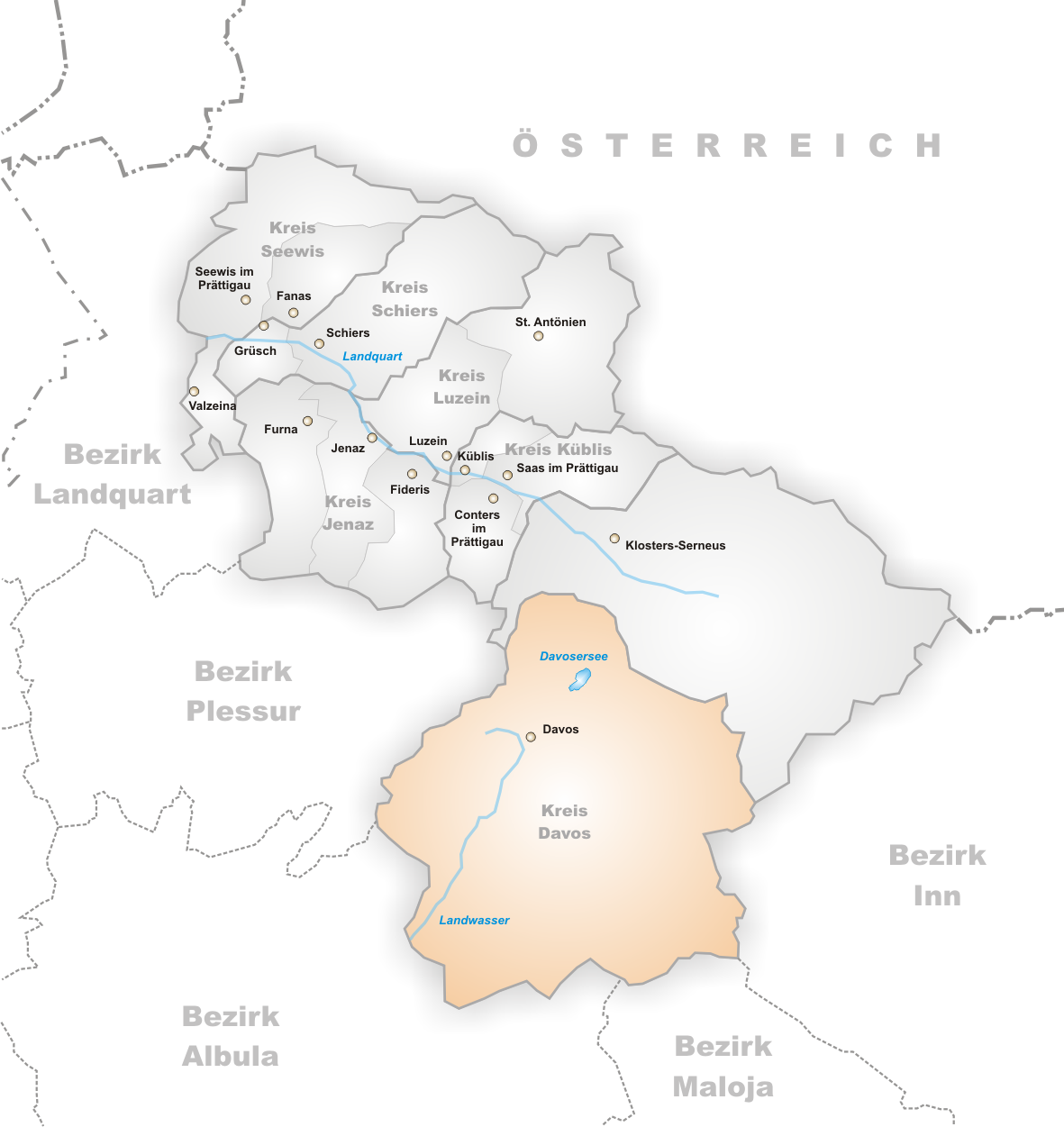 Municipalities in the district of Prättigau-Davos until 2008